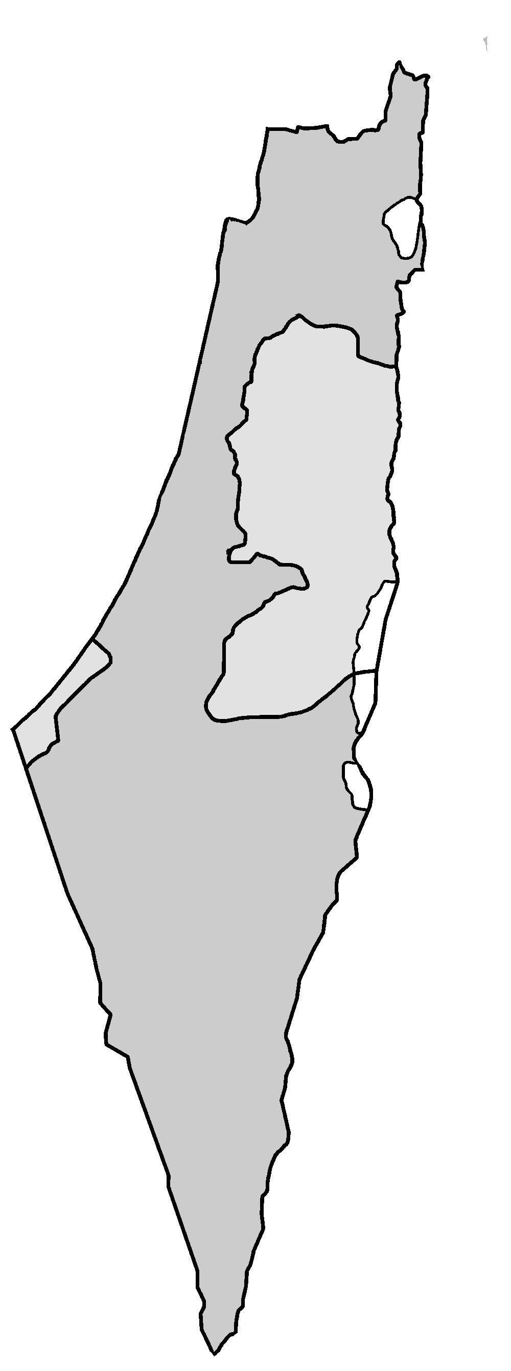 Blank map to be used for city-locations. Adapted from citylocation of Haifa